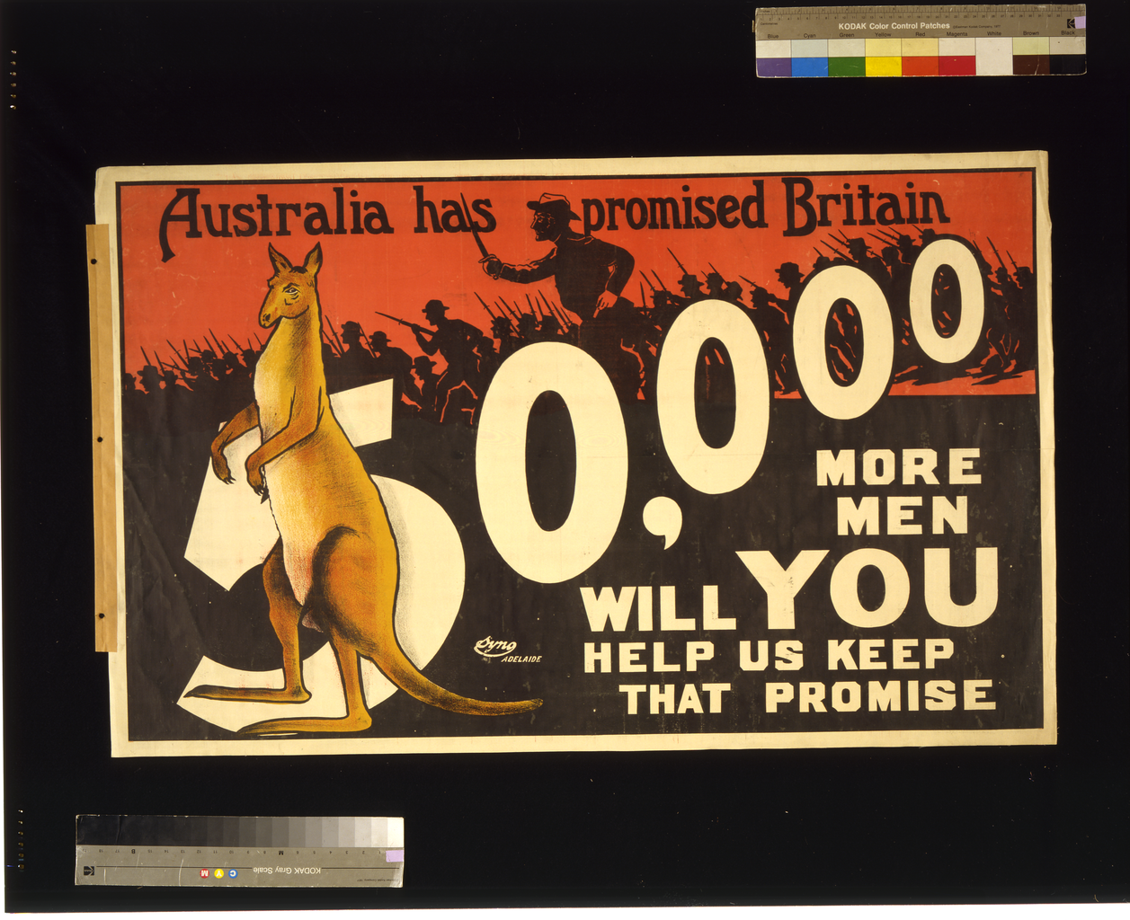 In World War I, all sides used posters as tools to mobilize their populations for the war effort. Australia fought on the side of its “mother country,” Great Britain. Australian soldiers suffered heavy casualties in the Gallipoli campaign and in the trenches on the Western front. Casualties led to recruiting drives intended to attract new enlistments. This poster by an unidentified artist appeals to the strong sense of loyalty to Britain felt by the Australian people. It shows a kangaroo in front of number 50,000 and in the background a silhouette of soldiers in battle. Kangaroos; Lithographs; Soldiers; War posters; World War, 1914-1918